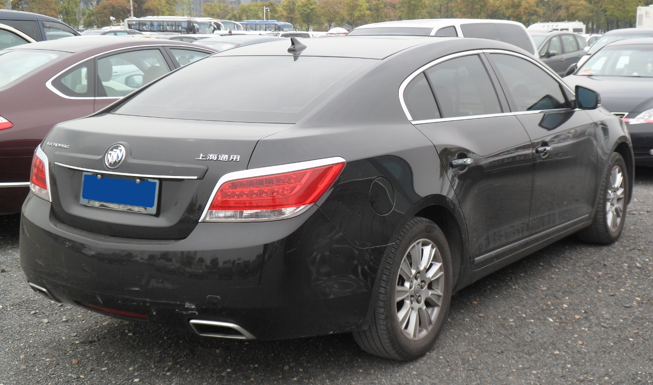 Buick LaCrosse II photographed in Anting, Shanghai municipality, China.